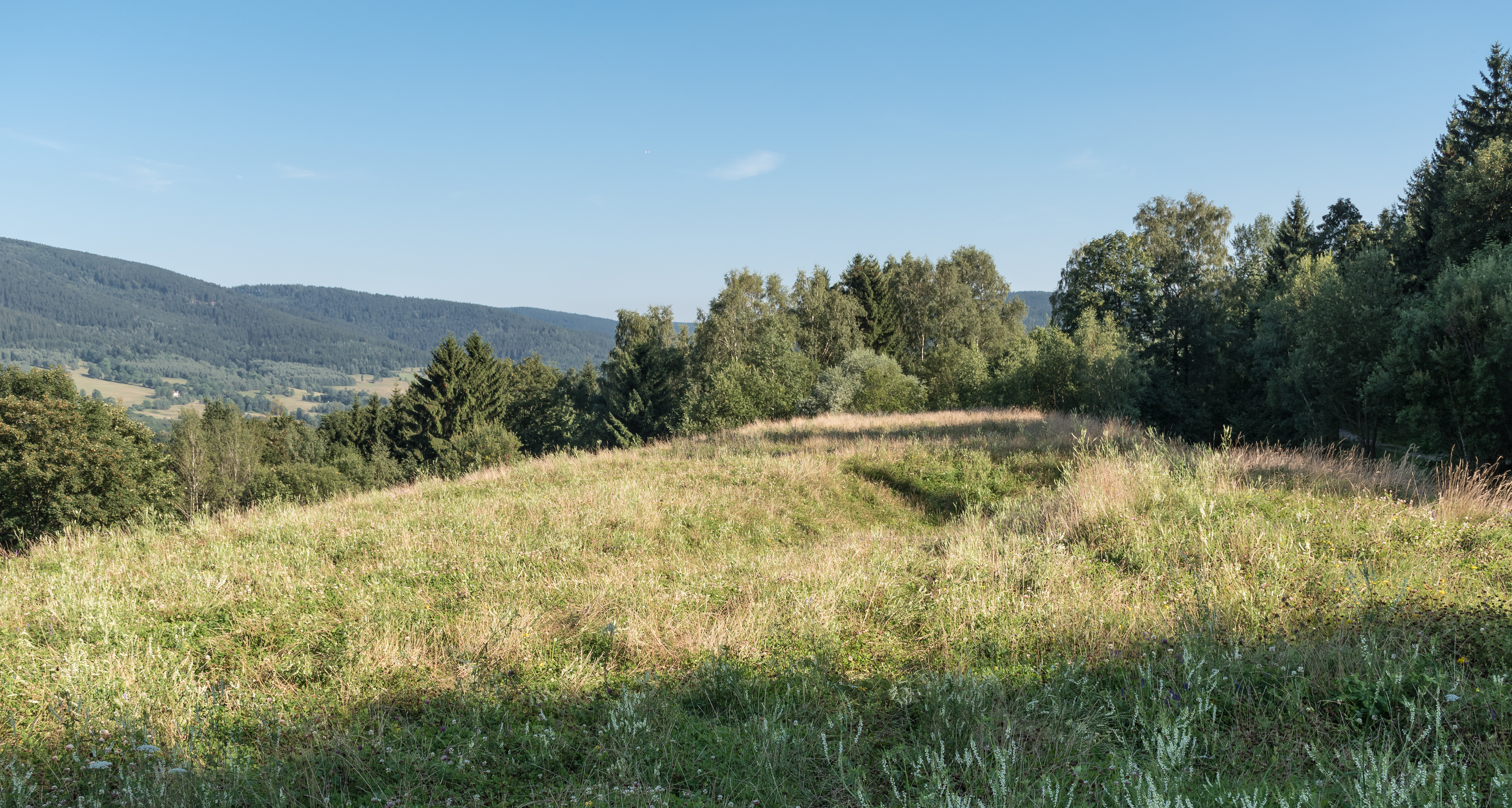 Landfill after ecological restoration in Stara Morawa